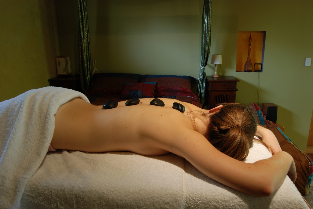 Relaxing Massage and/ or Beauty Treatments can be arranged for you in the privacy of your cottage.